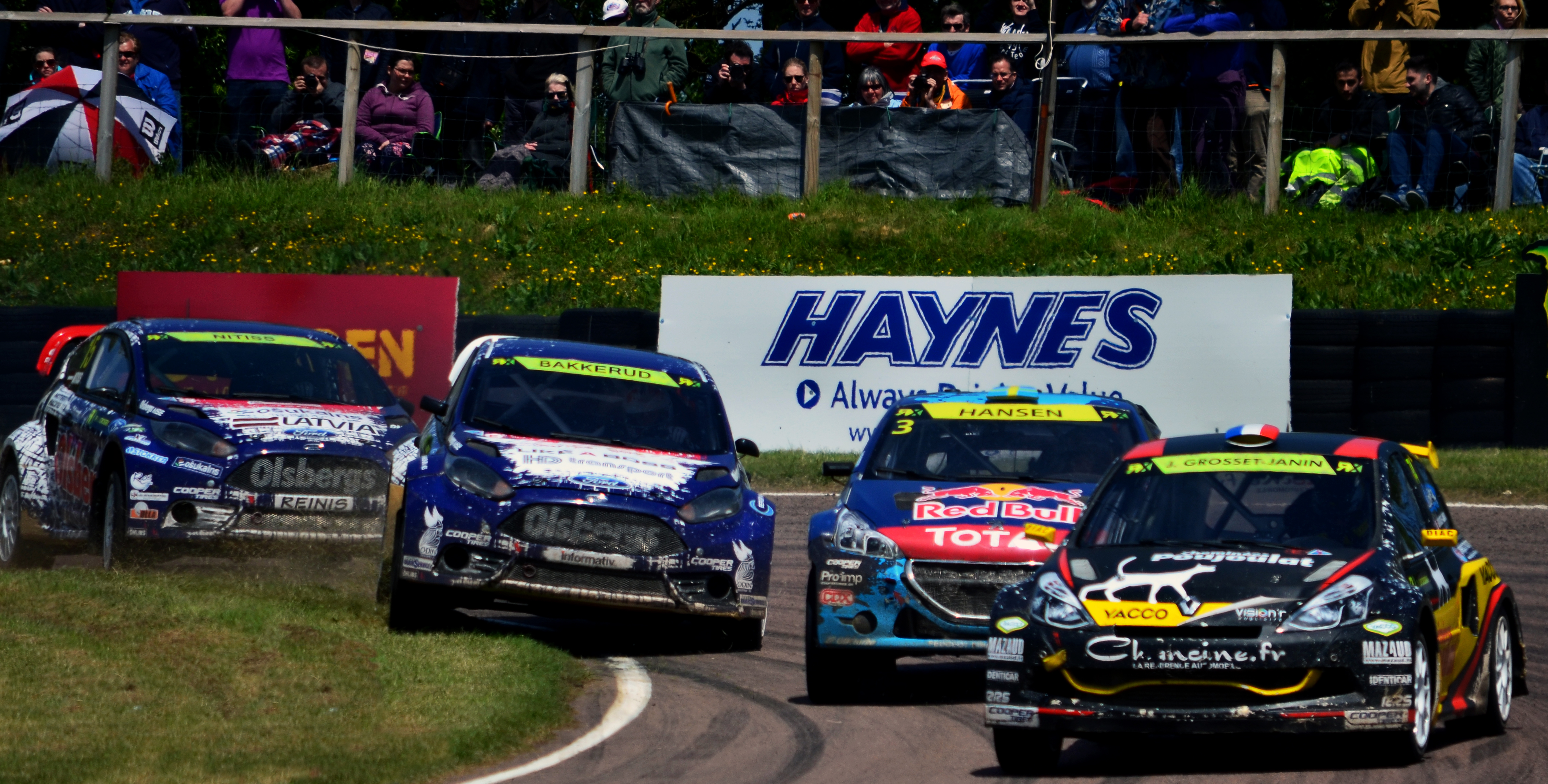 Superbly close racing at Lydden Hill for round 2 of the 2014 FIA World Rallycross Championship as Jérôme Grosset-Janin leads Timmy Hansen, eventual winner Andreas Bakkerud and Reinis Nitišs through the North Bend hairpin.